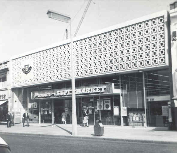 Premier Supermarket, Station Road, Harrow